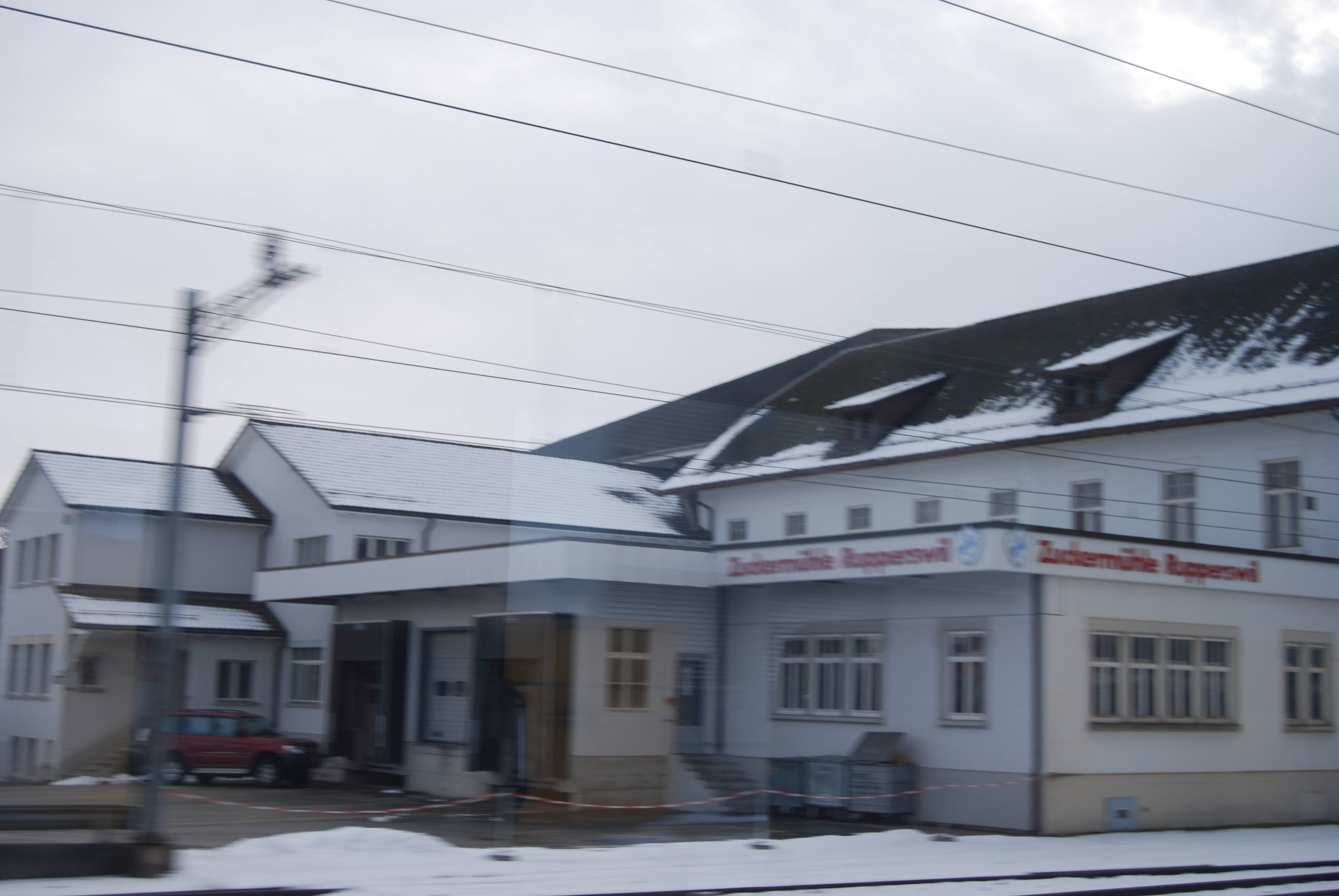 Rupperswil seen from the passing train, canton of Aargau, SwitzerlandEsperanto: Rupperswil vidita el la veturanta trajno, Kantono Argovio, Svislando